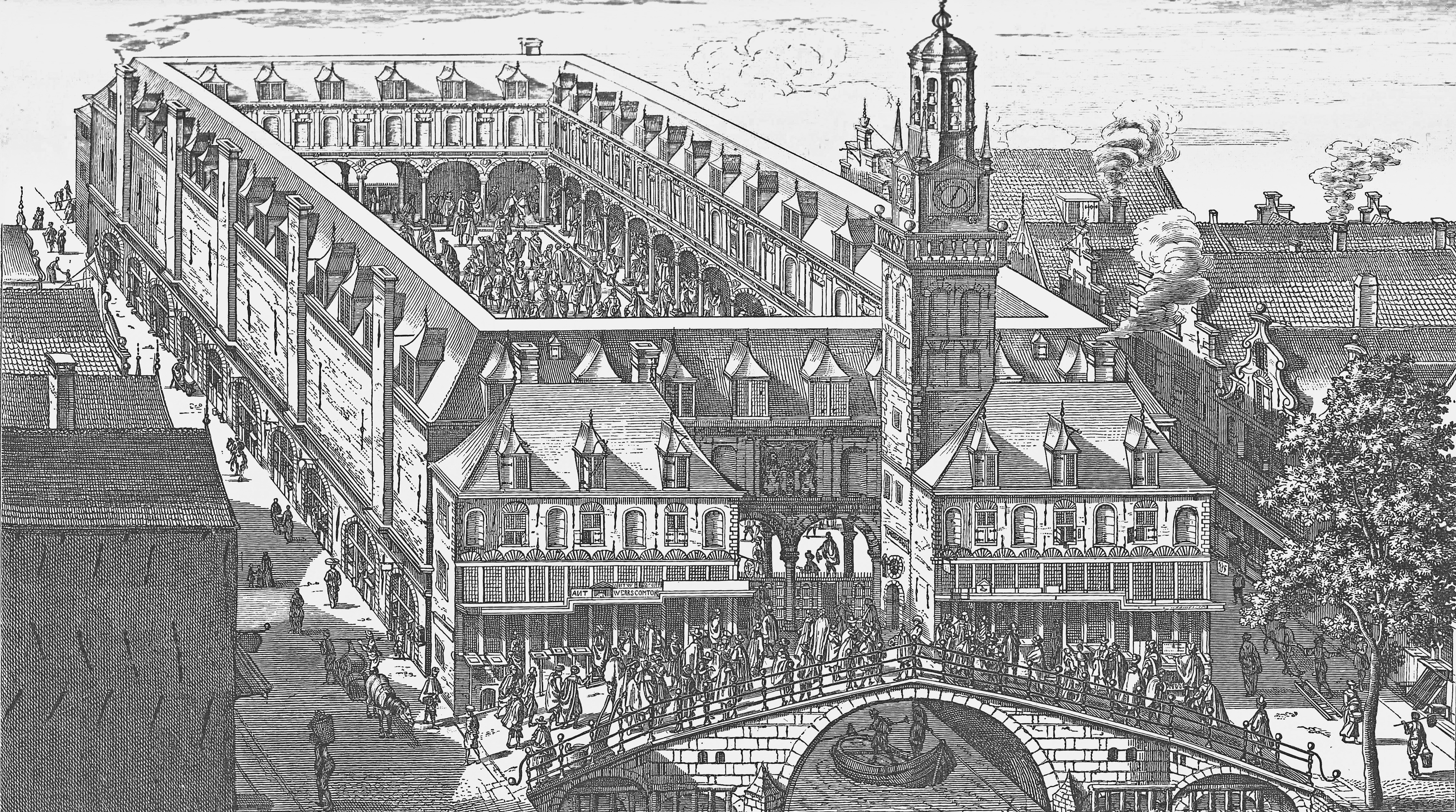 The old bourse of Amsterdam. From the caption: THE OLD BOURSE OF AMSTERDAM (DESTROYED BY FIRE, 1858) (After an old woodcut in the Germanic National Museum in Nuremburg.)